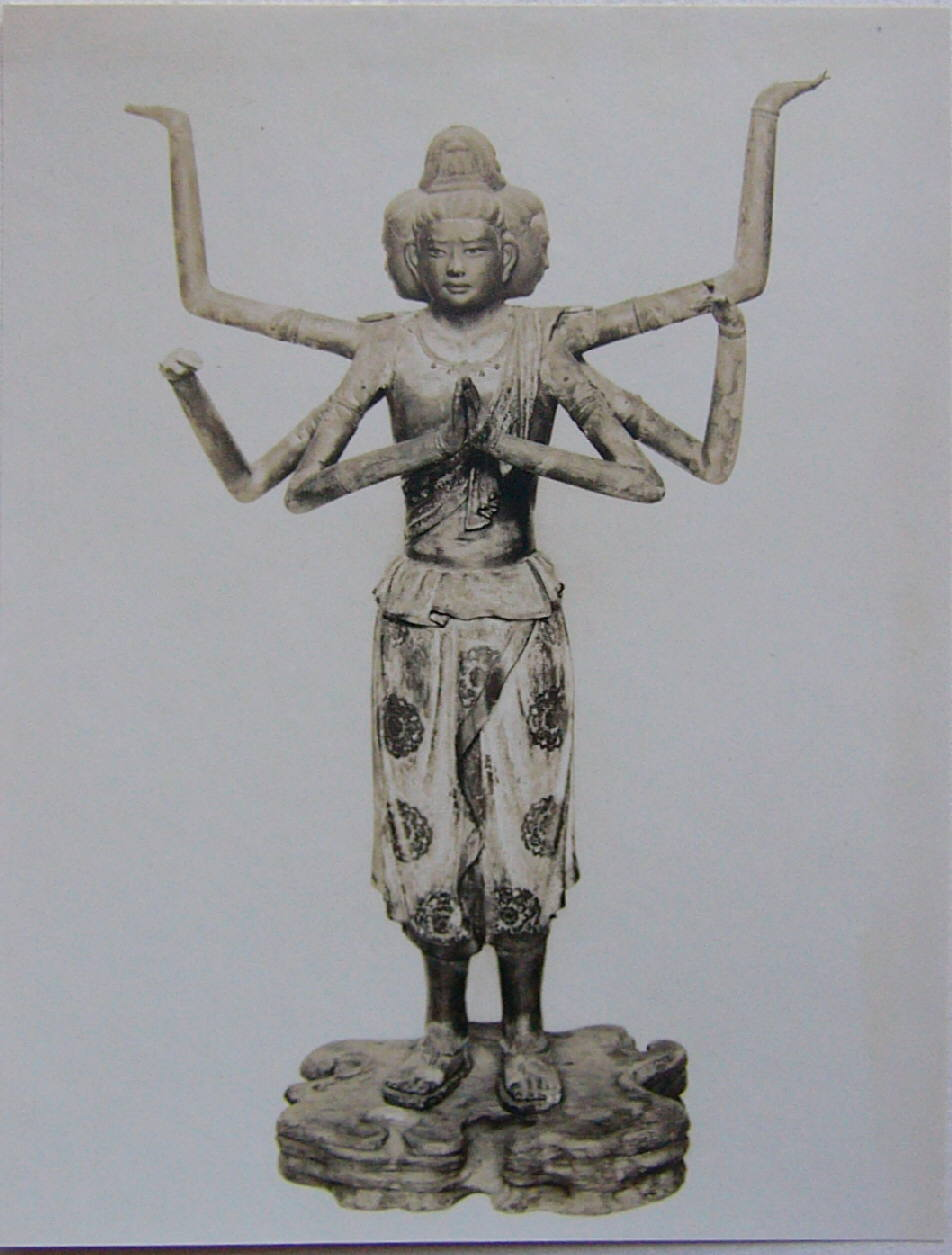 ASYURA, lacquer statue(laquer, linen, wood, colour), about 153cm height, ACE733